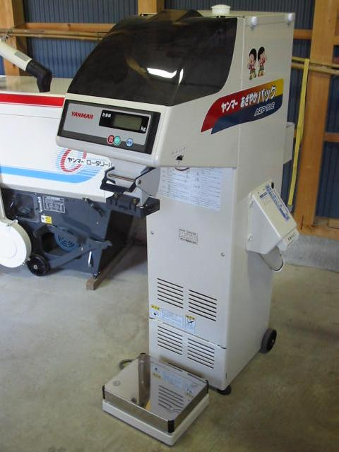 A rice grading machine with automatic weight scale and packer.